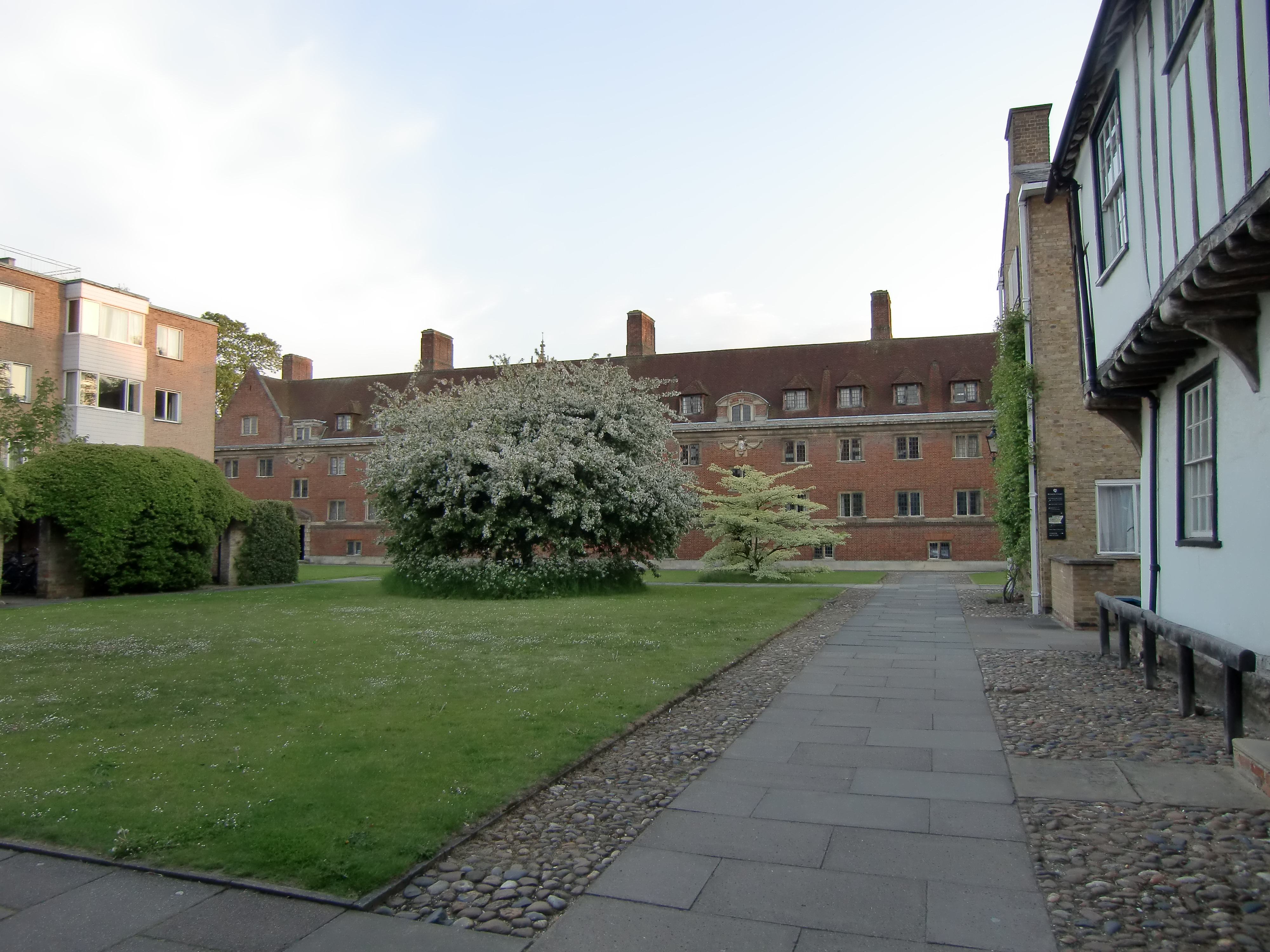 Benson Court, Magdalene College, Cambridge.